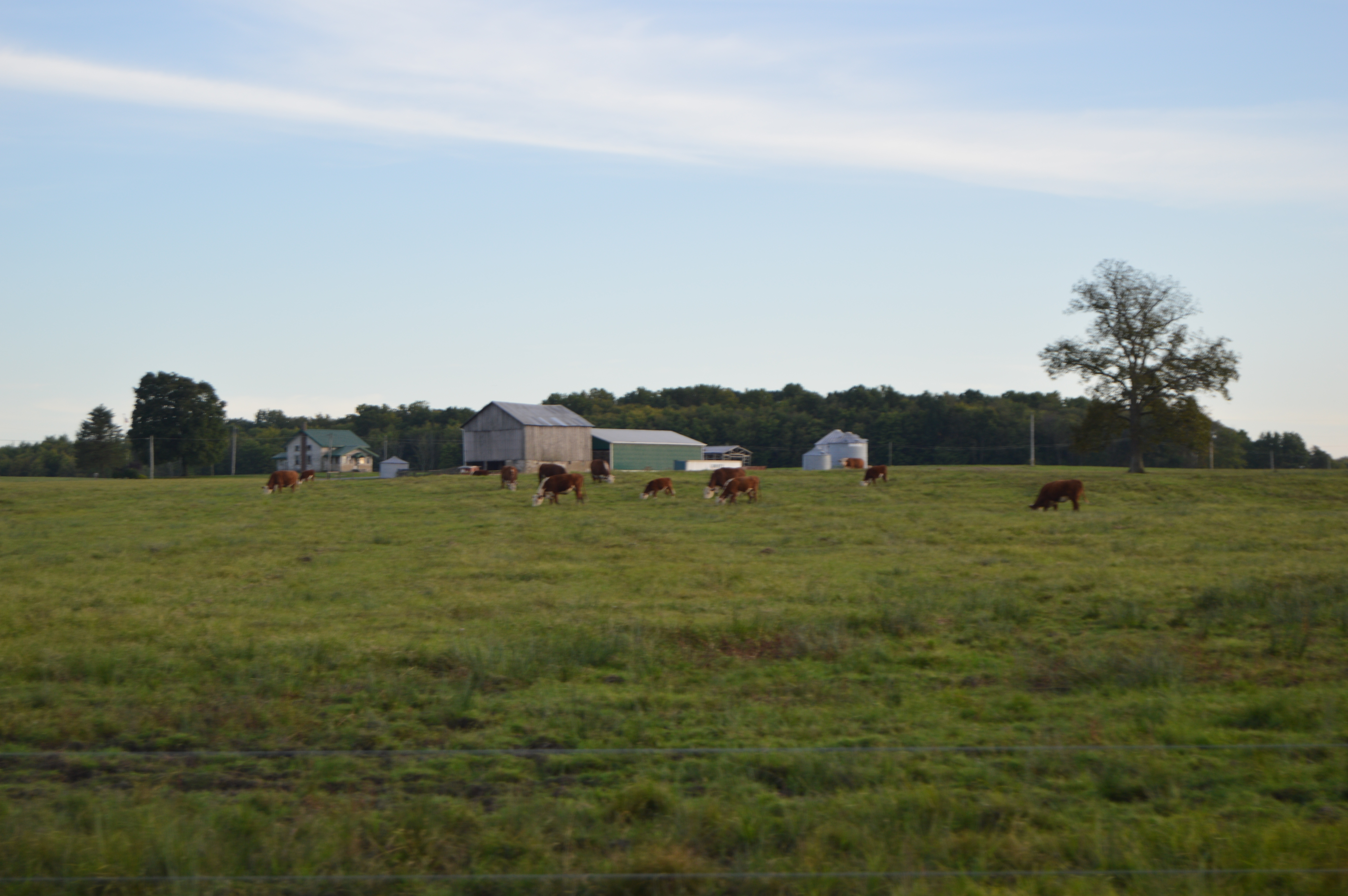 Cattle on pasture on the southern side of Fredonia Road west of Stoneboro in Lake Township, Mercer County, Pennsylvania, United States.